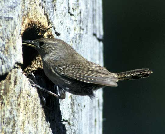 House Wren Nest public domain by United States Fish and Wildlife Service (USFWS)